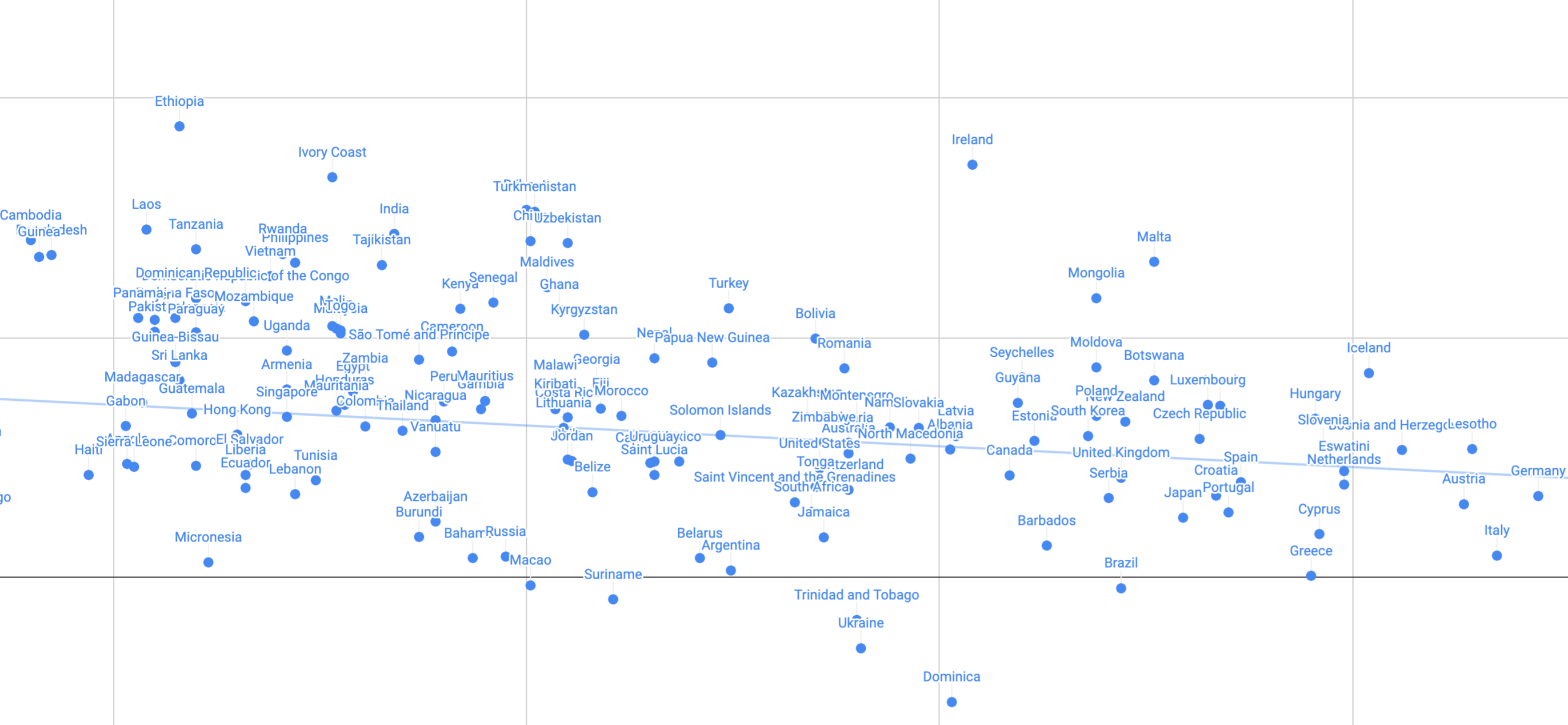 Relation between the tax revenue to GDP ratio and the real GDP growth rate - zoom